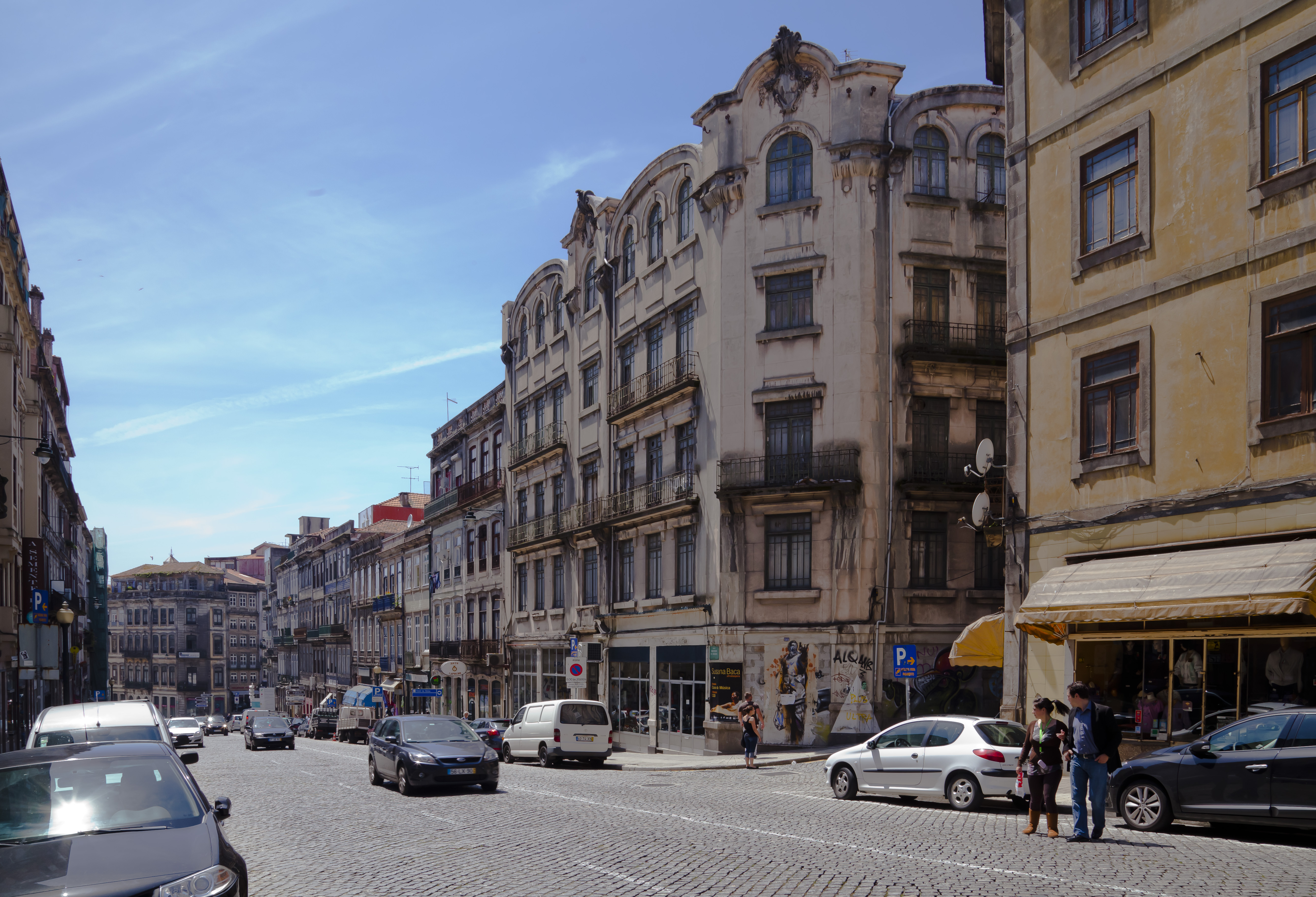 Rua de Mouzinho da Silveira, Porto, Portugal